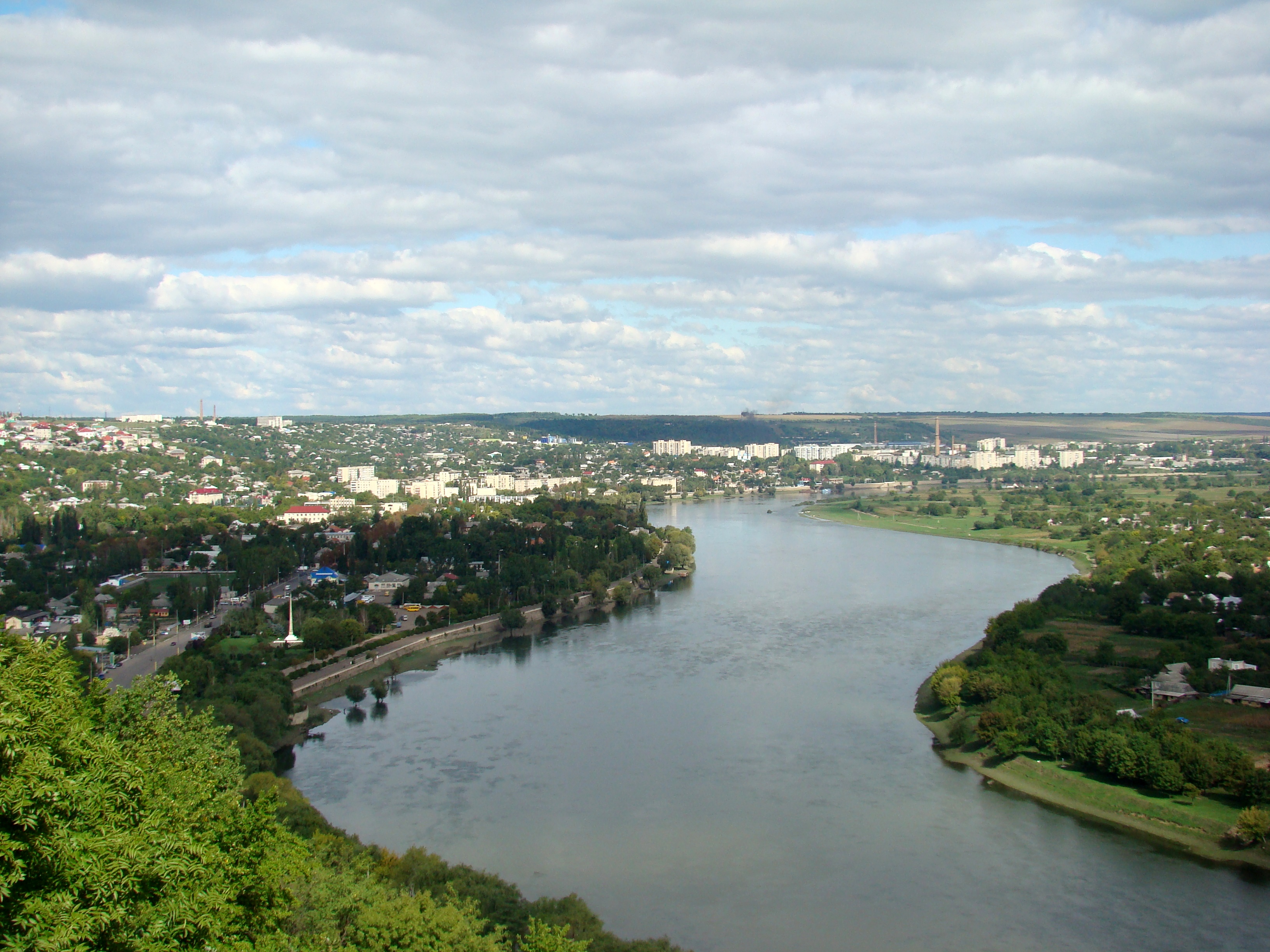 The Soroca city upon the Dniestr river, Moldova.